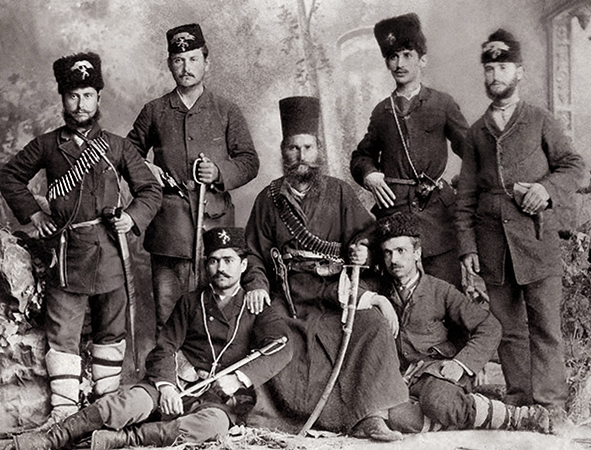 Portrait of the Members of the Secret Revolutionary Committee taken in Asenovgrad.